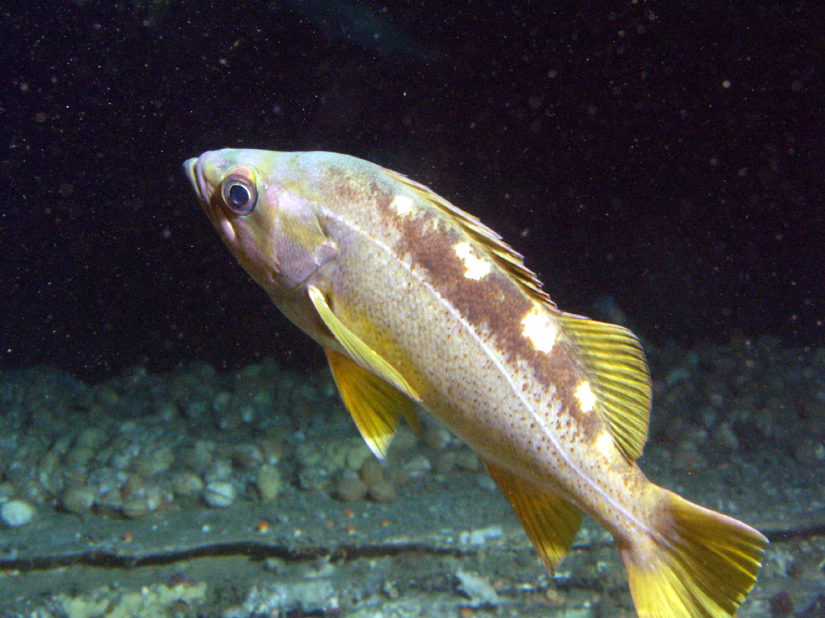 Yellowtail rockfish (Sebastes flavidus) swimming over brachiopods on a low relief ledge off Point Sur observed during a sanctuary seafloor monitoring survey using the Delta submersible.